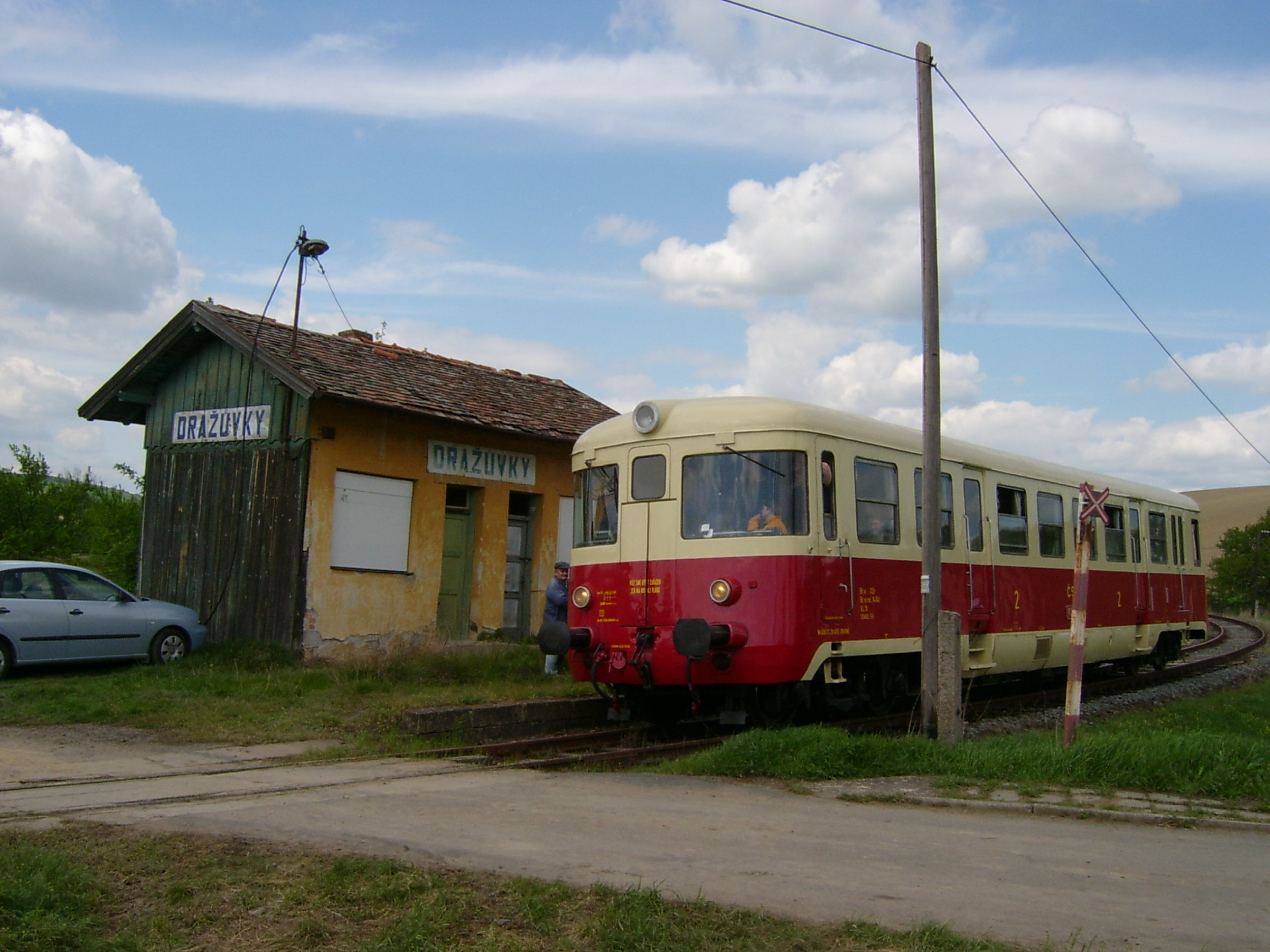 Train stop in Dražůvky, Czech Republic on Čejč - Ždánice line. It was serviced by regular passenger trains between 1908 - 1998. Since 1998, the line has been out of use but - due to legal requirements - maintained in passable condition by railroad administration until October 2006, when it was officially closed [1]. The picture shows a charter train (diesel railcar M240.0113 made in 1964) on a tour for rail enthusiasts along disused tracks of Southern Moravia.